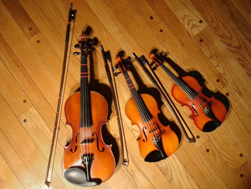 3 violins (1/1 size, 1/8 size, and 1/10 size) with bows, these are student's instruments that are marked with tapes